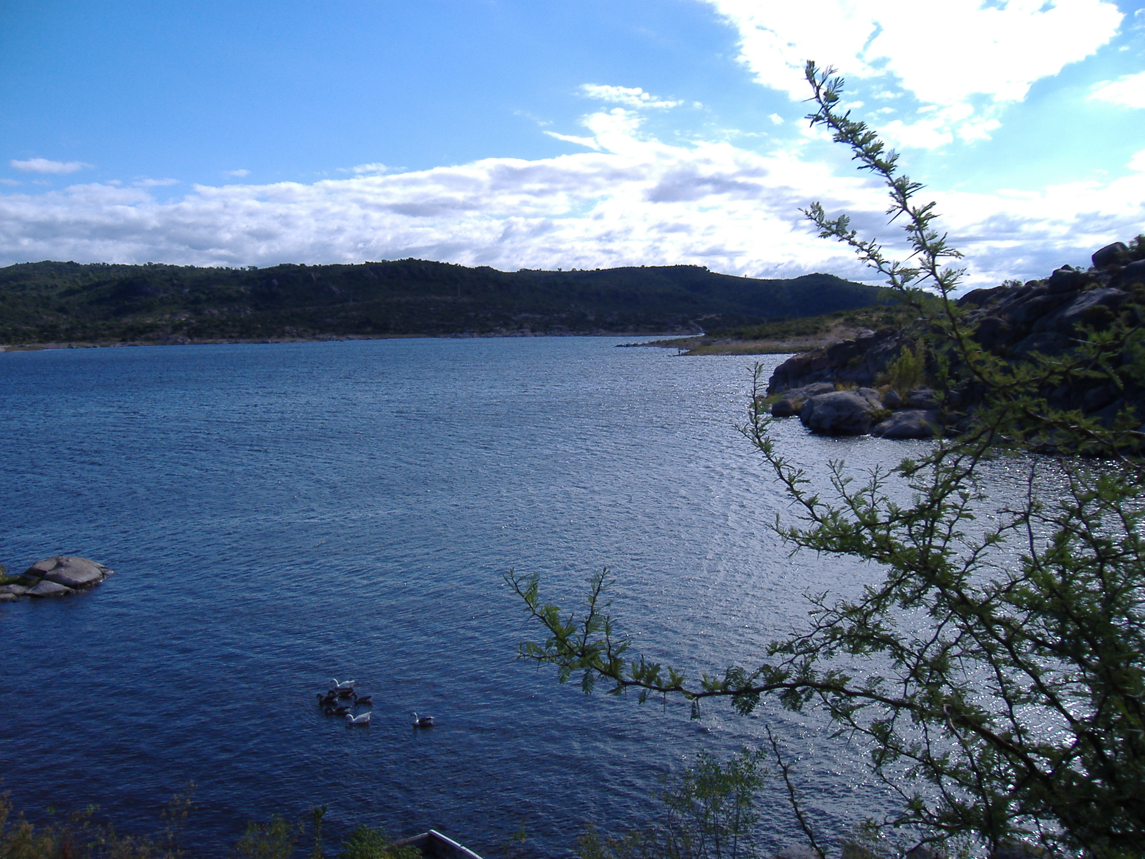 The reservoir of El Cajón Dam, in Córdoba Province, Argentina, near the town of Capilla del Monte.